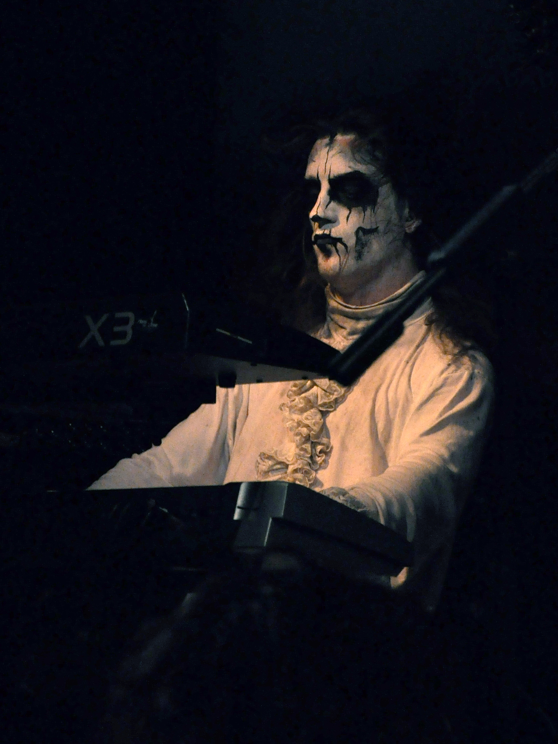 Carach Angren, a symphonic Black Metal group from the Netherlands, during their first concert in France, in Evreux, on the 21st of February 2009; Ardek (keyboards).